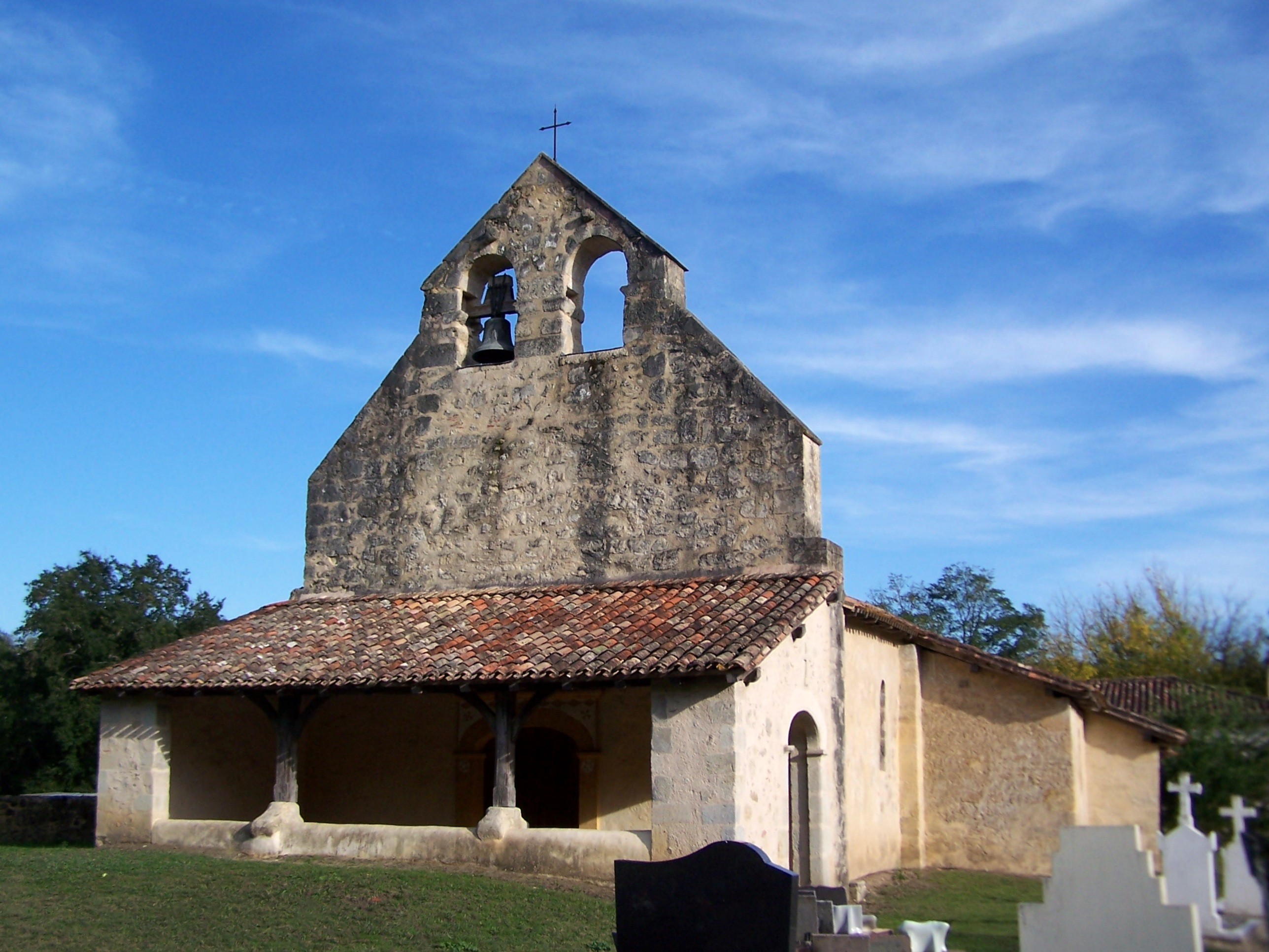 Saint Lawrence of Artiguevieille church in Cudos (Gironde, France)